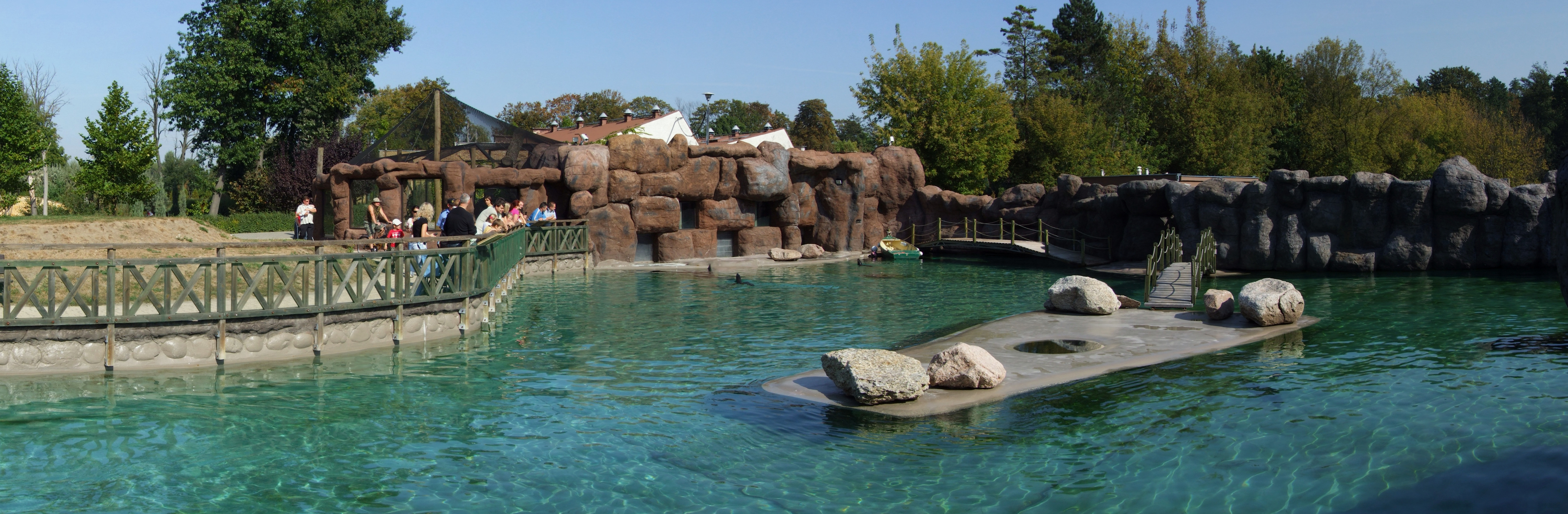 Exhibit of California Sea Lions in Zoo Opole